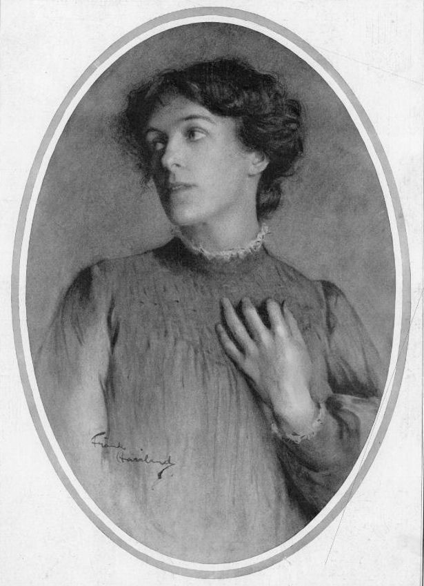 The actress Mabel Lucy Hackney as Phyllis in The Thunderbolt - The Illustrated London News, 13 June 1908, p. 855